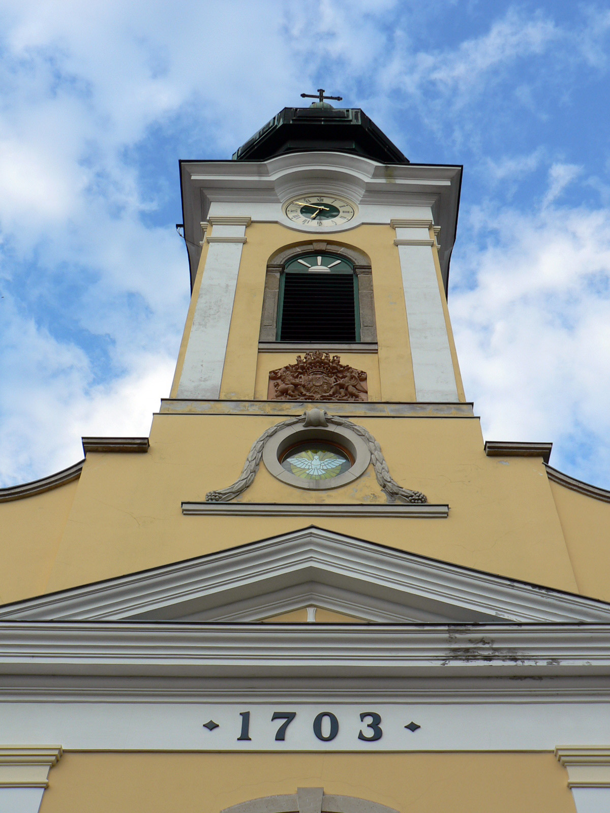 Pilisvörösvári templom homlokzata